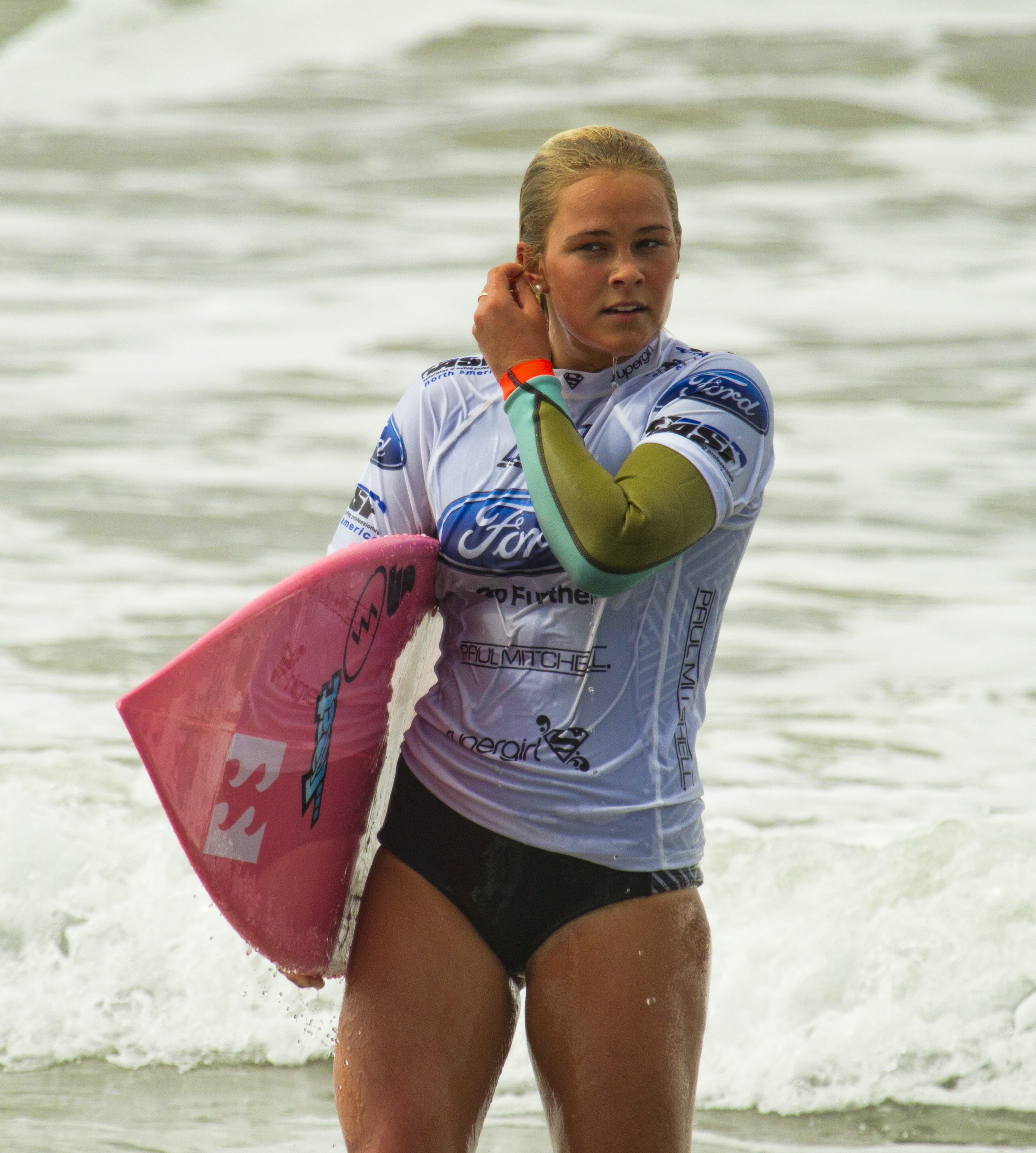 Felicity Palmateer finishes her heat at the Supergirl Pro in Oceanside, California.